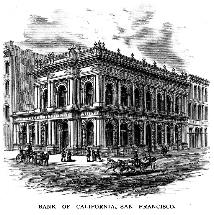 Engraving of the Bank of California building, NW corner of California & Sansome Sts., San Francisco, CA